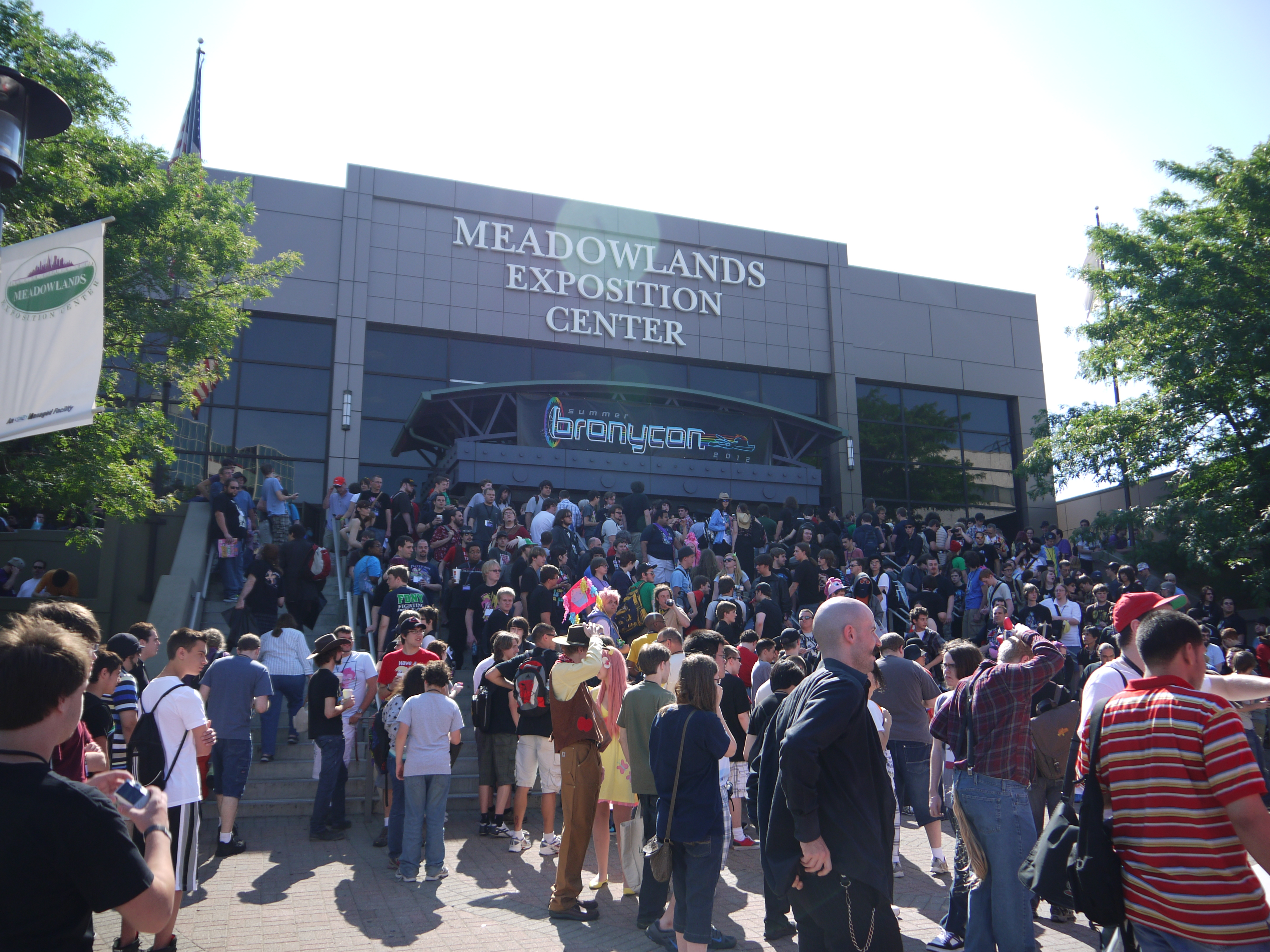 Lots of people